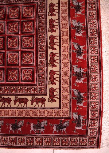 Modern copy of the Pazyryk rug